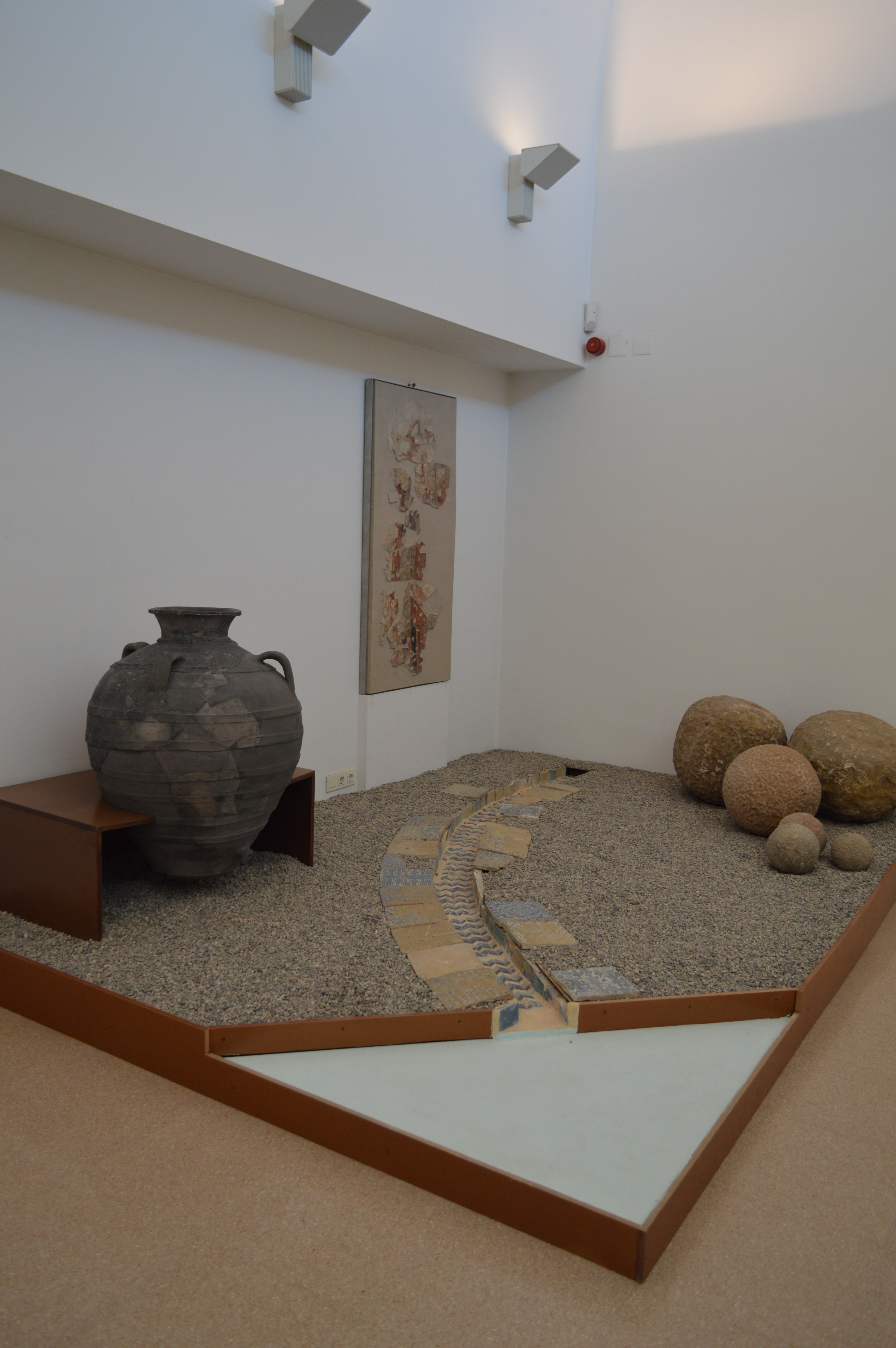 Exposició permanent